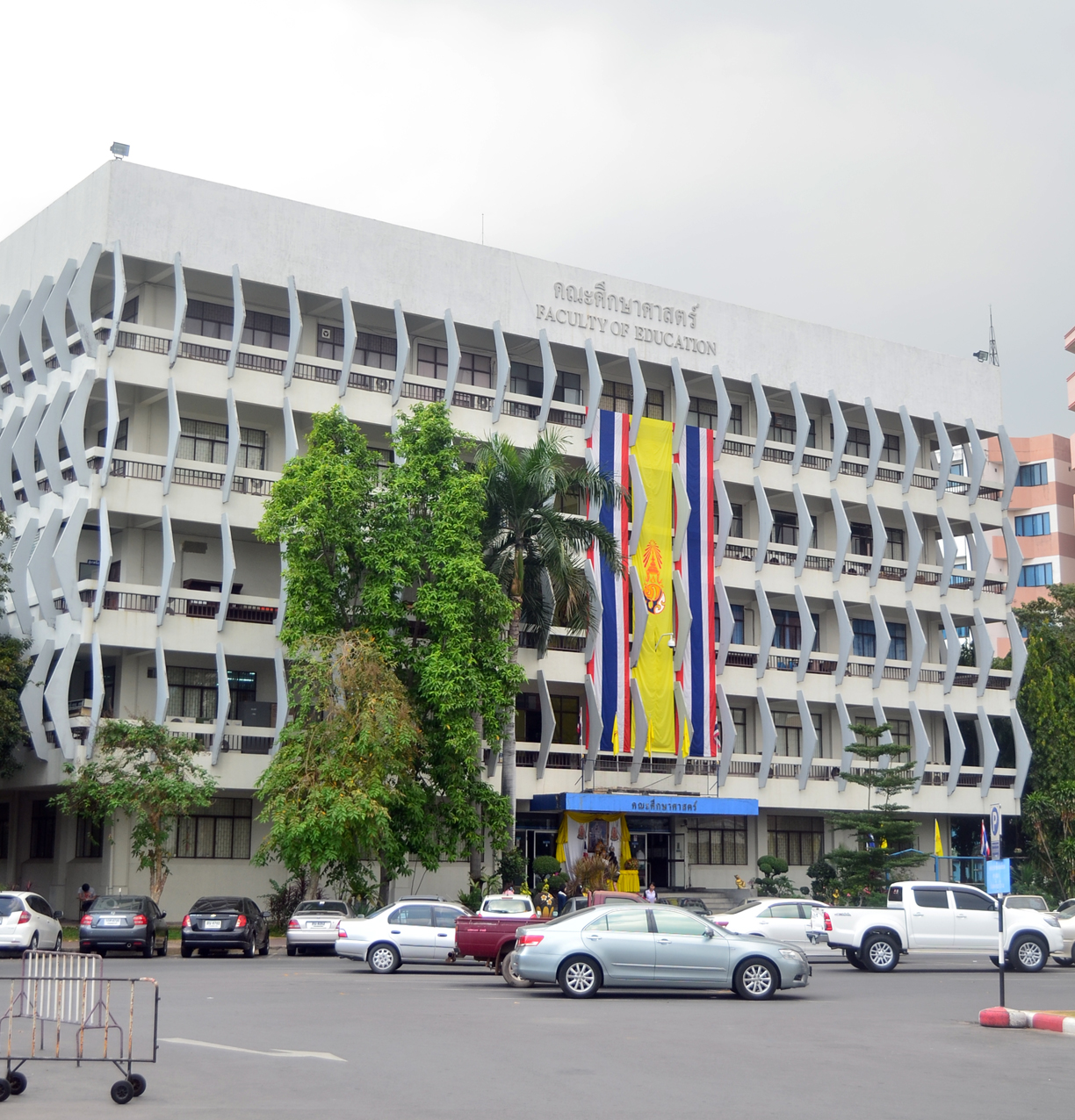 Faculty of Education Ramkhamhaeng University